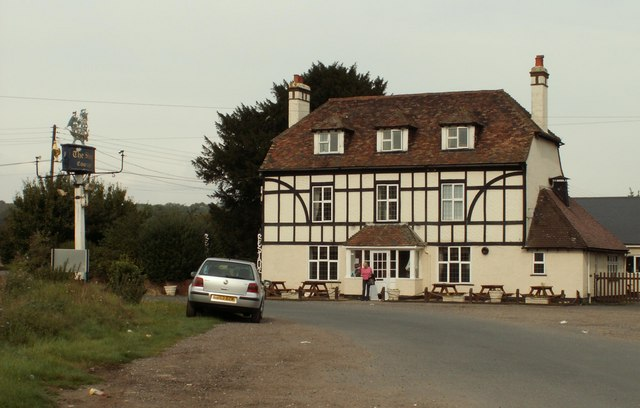 'The Ship' public house